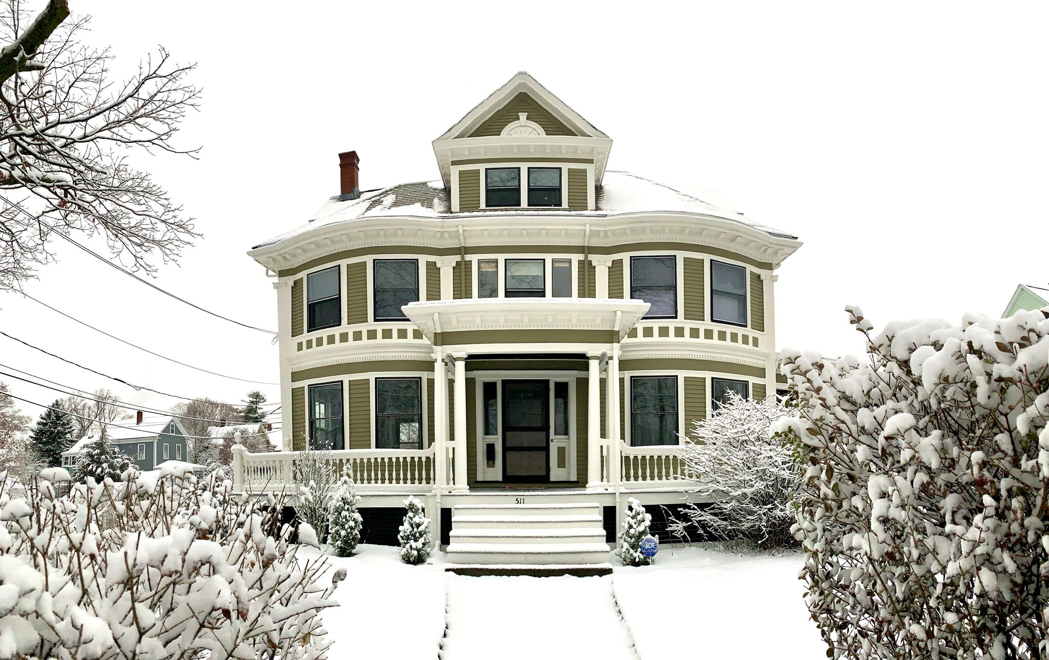 Photo of a Colonial Revival home during the winter in Newton, MA.